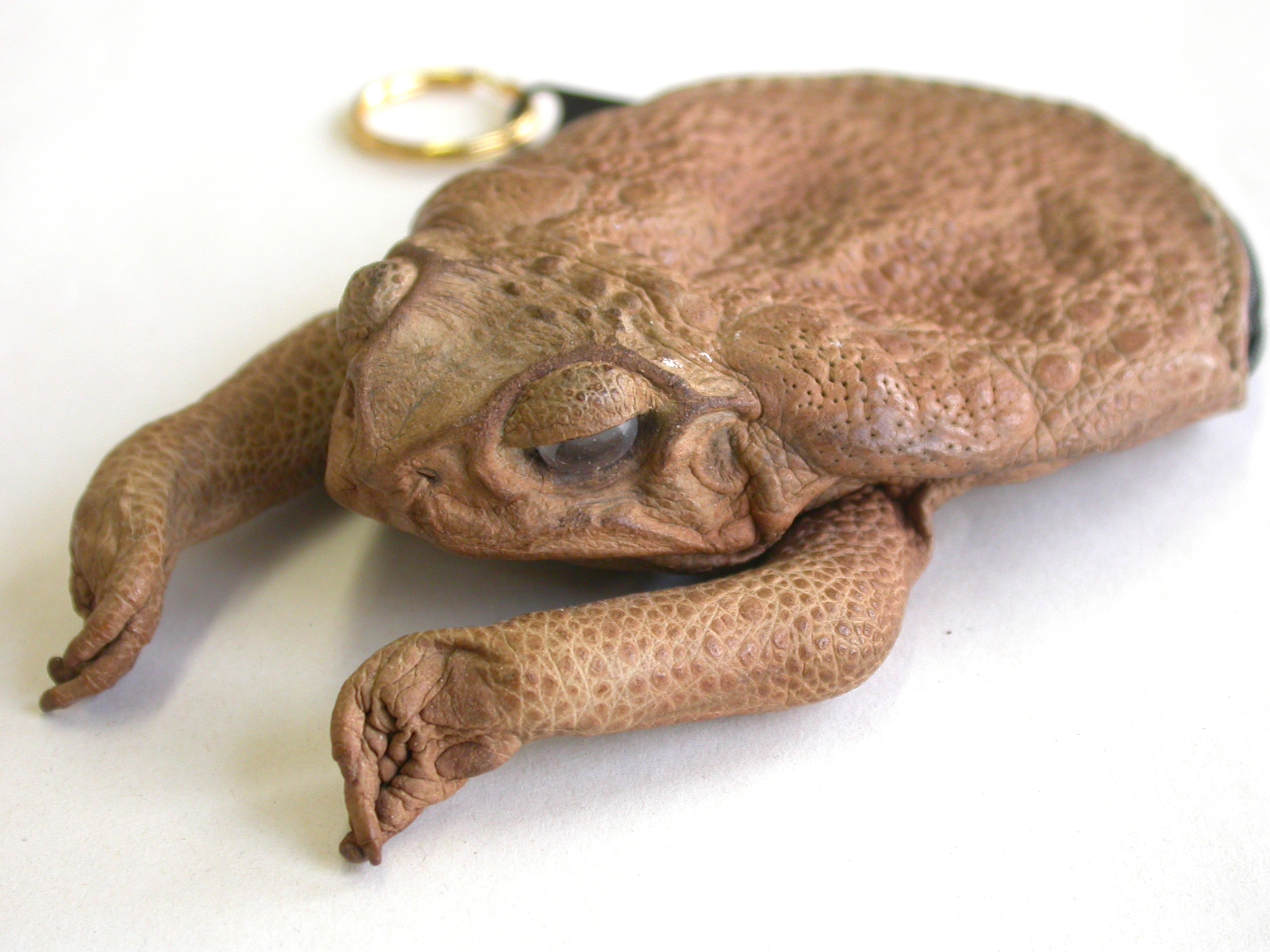 A purse made from Bufo marinus.